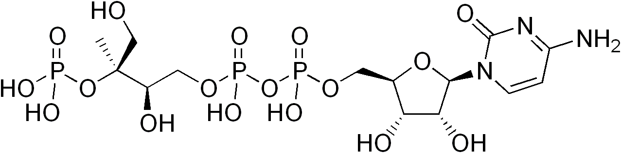 chemical structure of 4-diphosphocytidyl-2-C-methyl-D-erythritol_2-phosphate